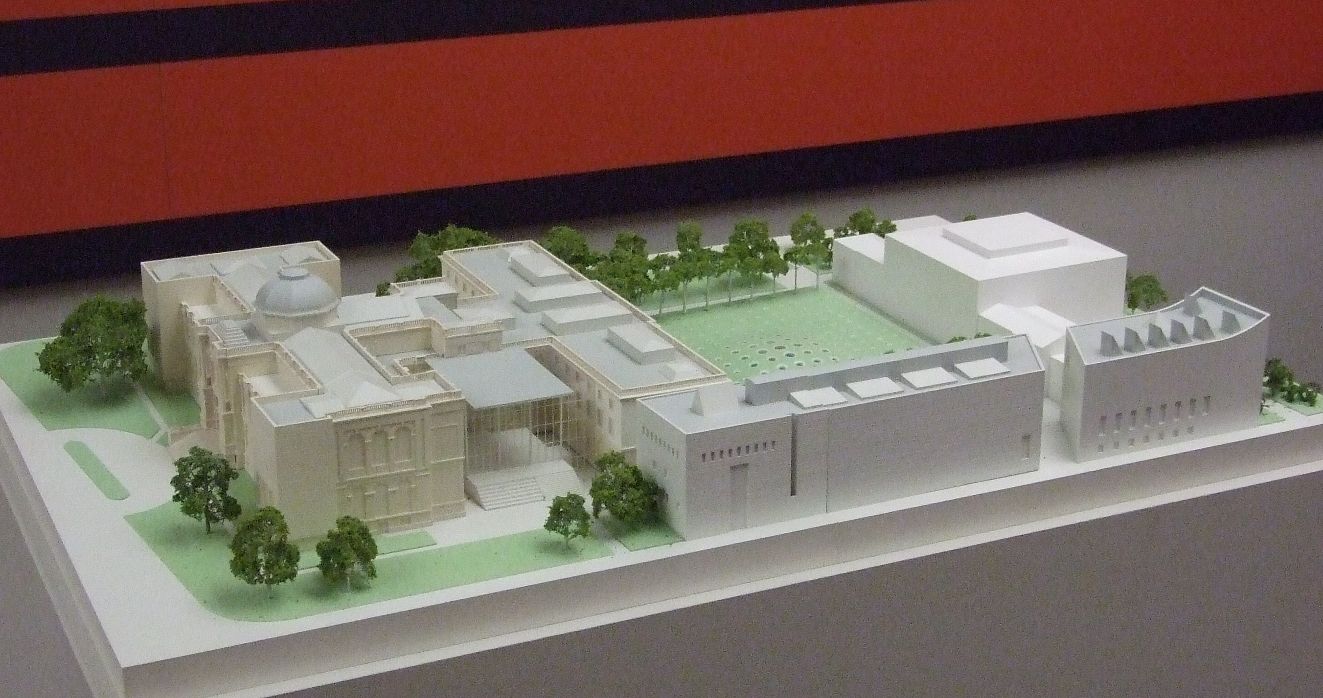 Model of Staedel extension